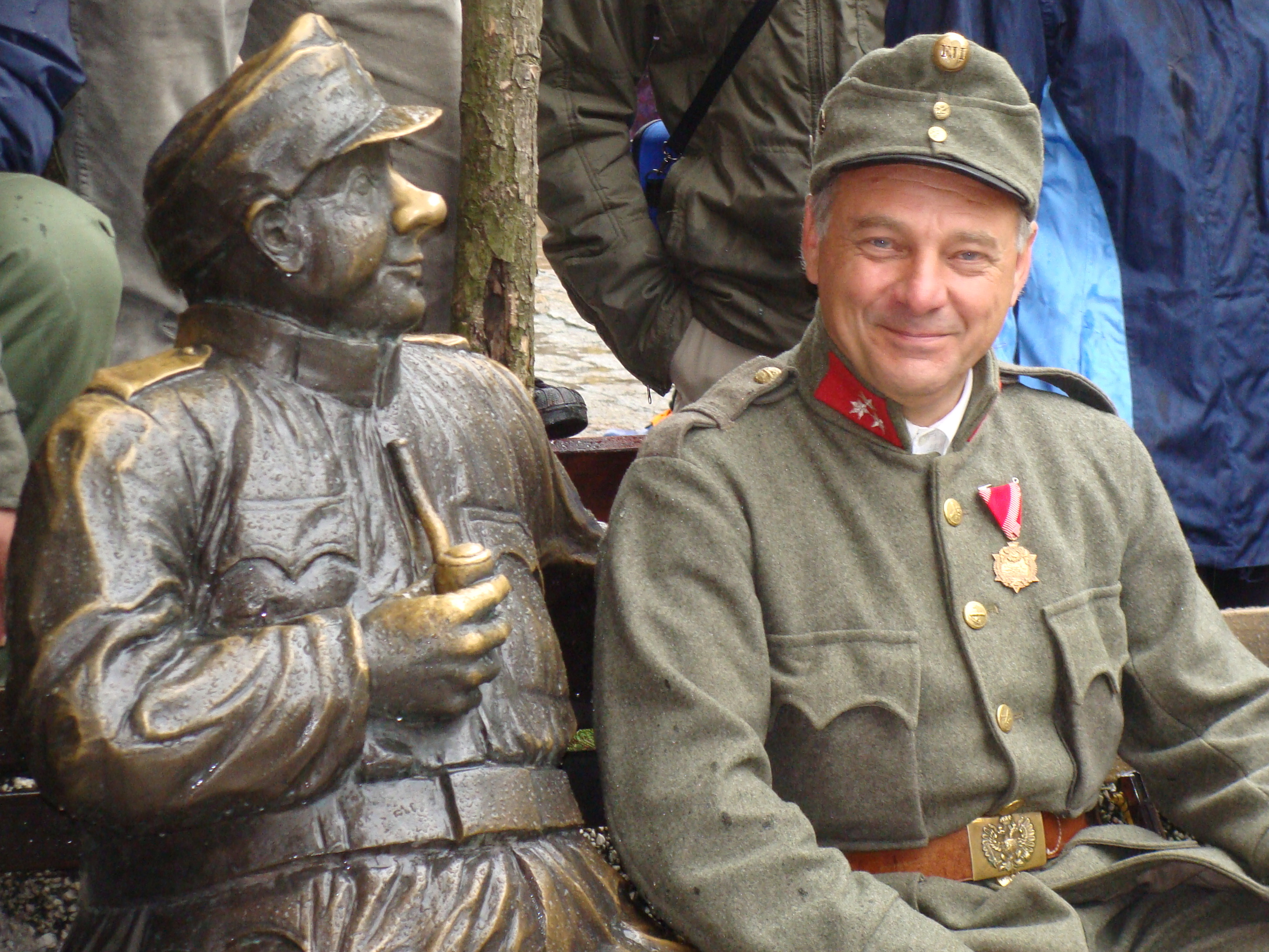 Monument of the Good Soldier Švejk with a living replica.